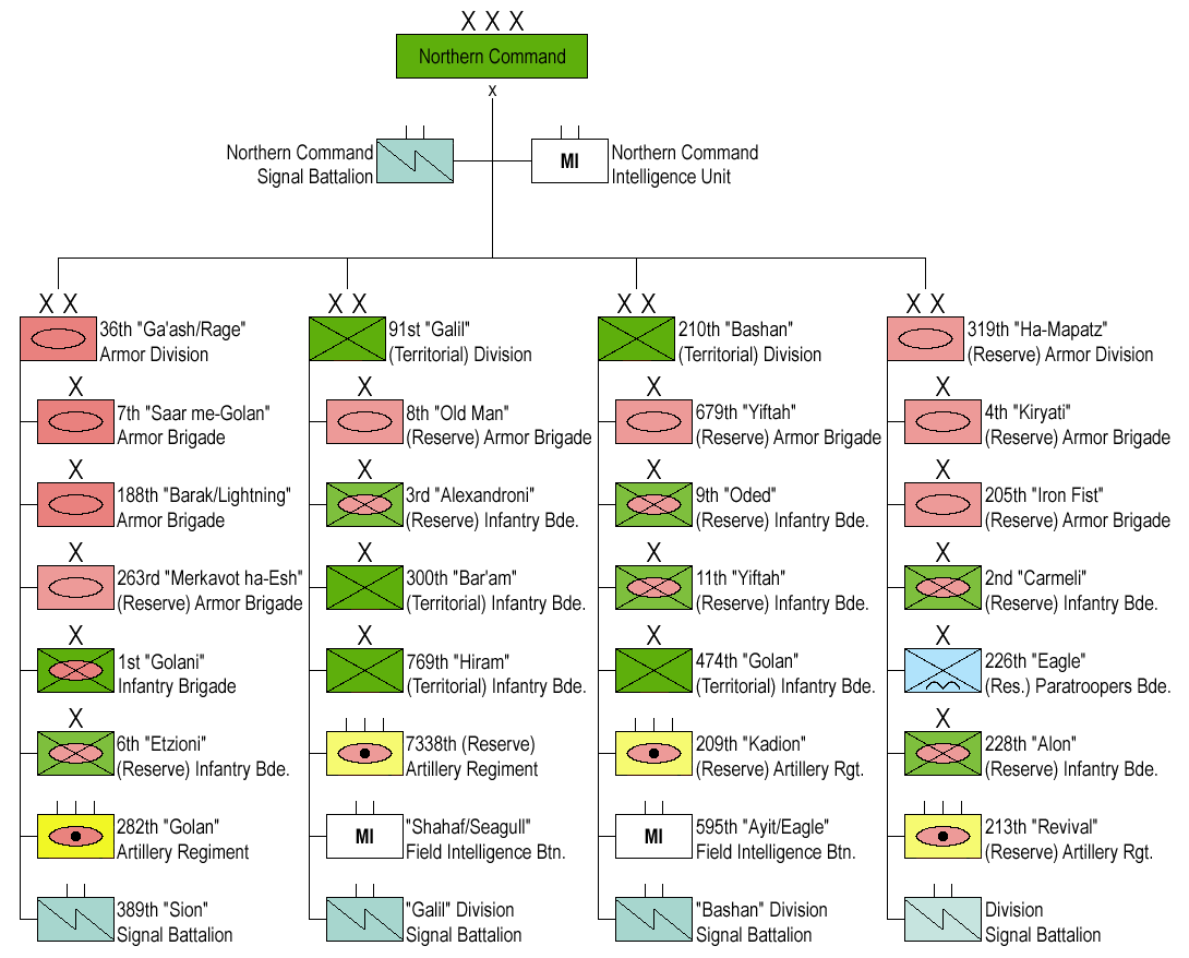 Structure of the known units of the Israel Defense Forces Ground Forces Northern Command.